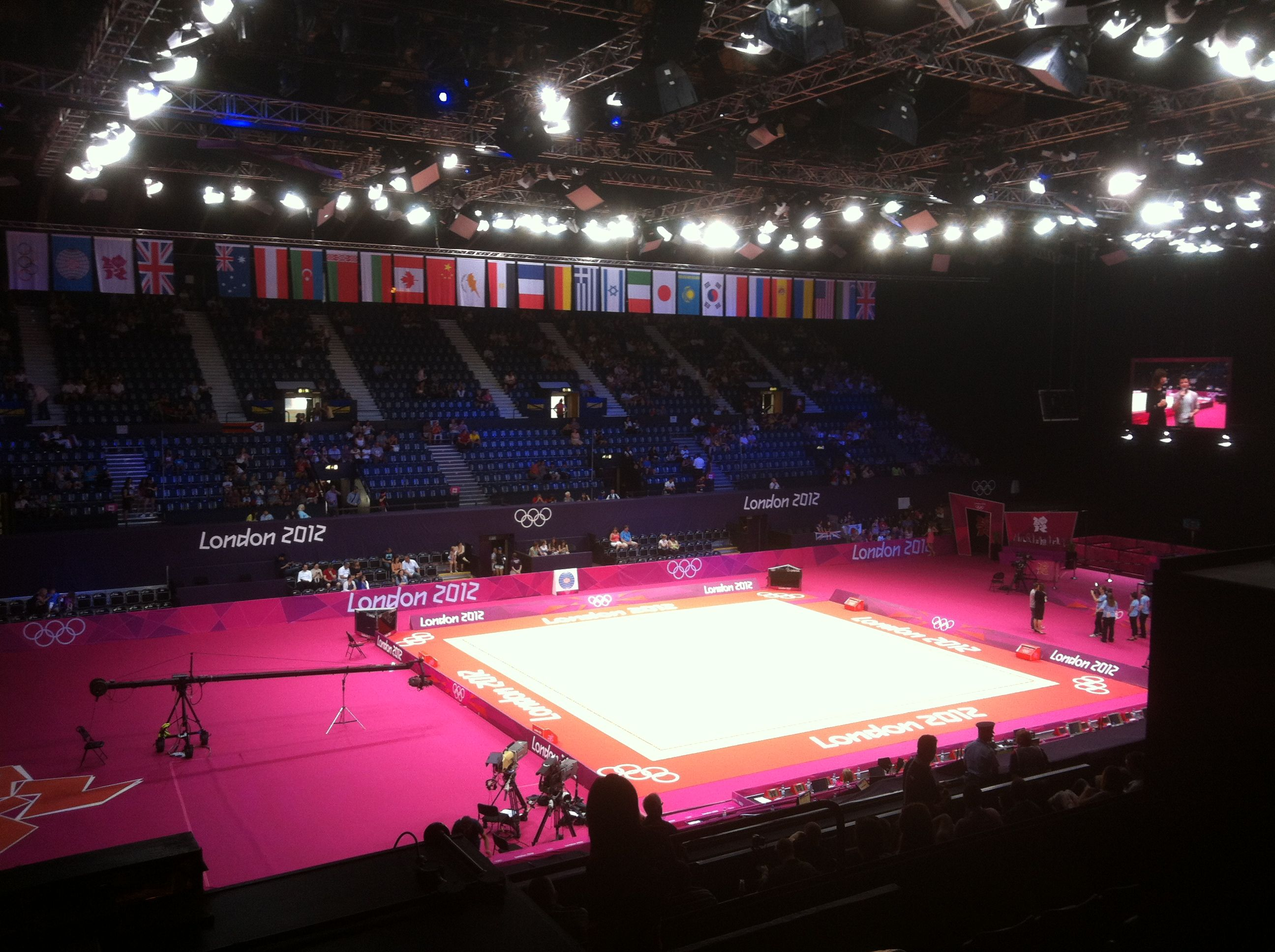 Interior of the Wembley Arena during the rhythmic gymnastic events